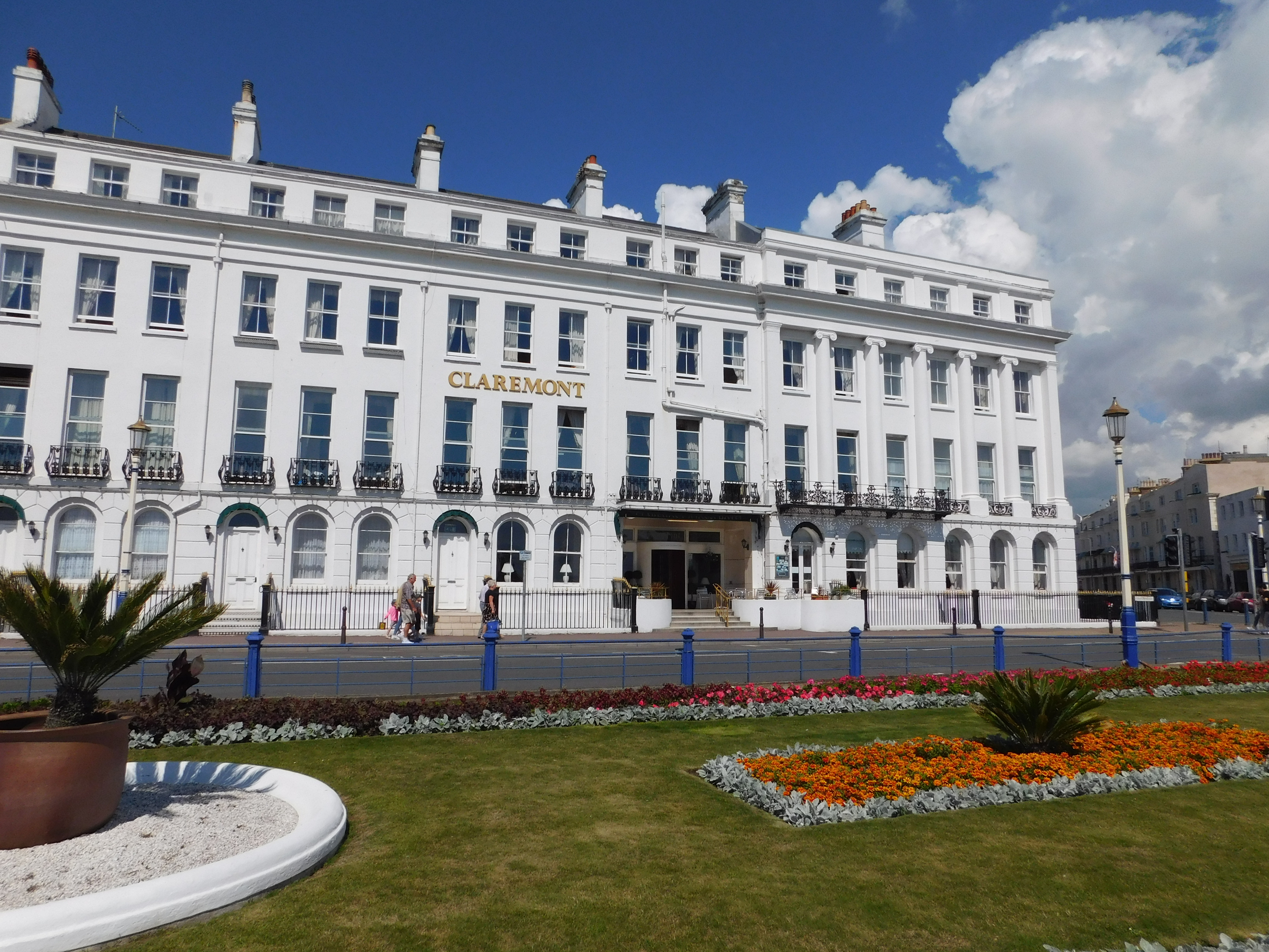 Burlington Hotel Claremont Hotel Wikidata has entry Q17555431 with data related to this item.